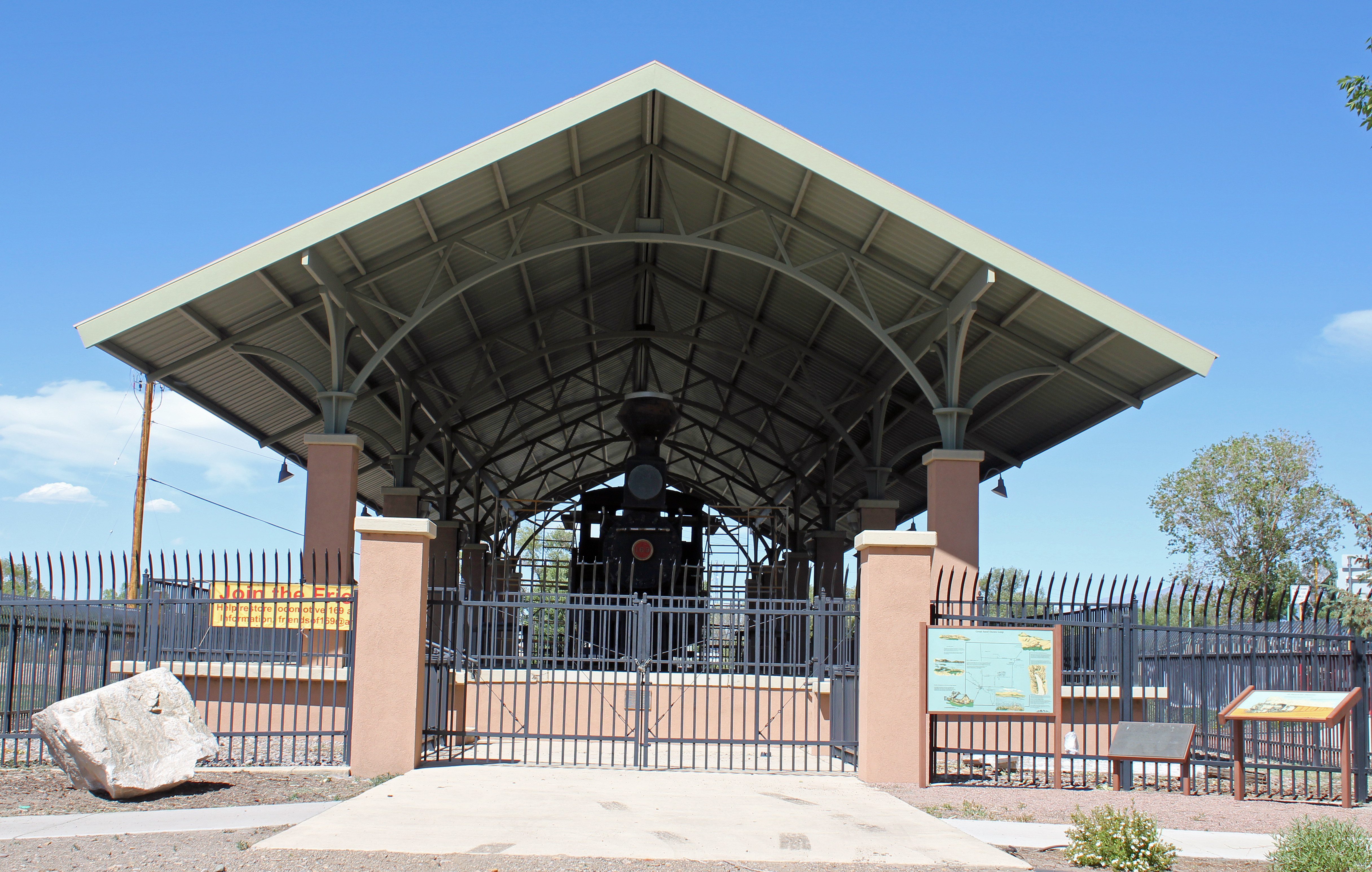 The Denver and Rio Grande Railroad Locomotive No. 169. It's located in Cole Park in Alamosa, Colorado. The locomotive is listed on the National Register of Historic Places.